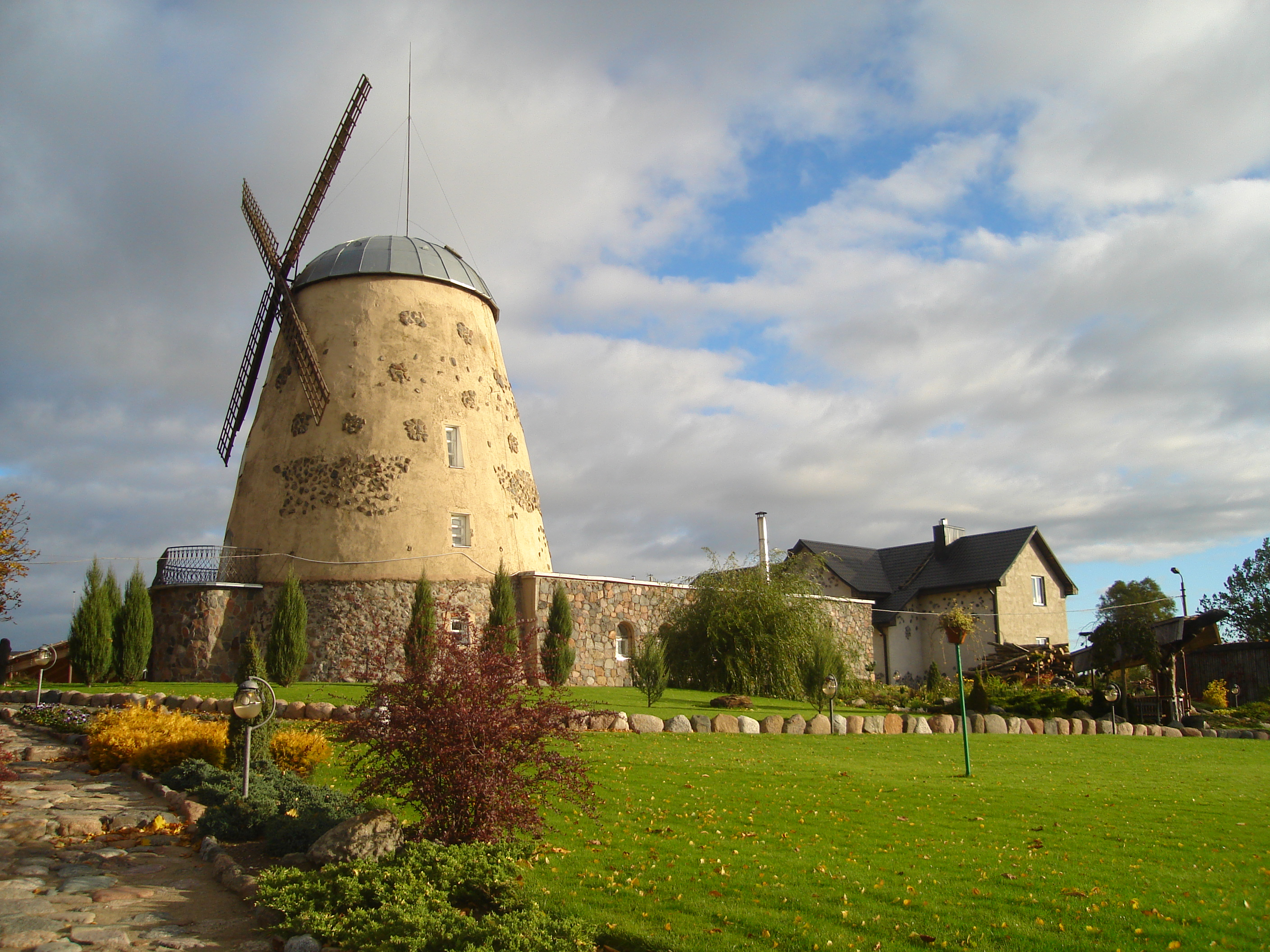 Picture of windmill in Šeduva